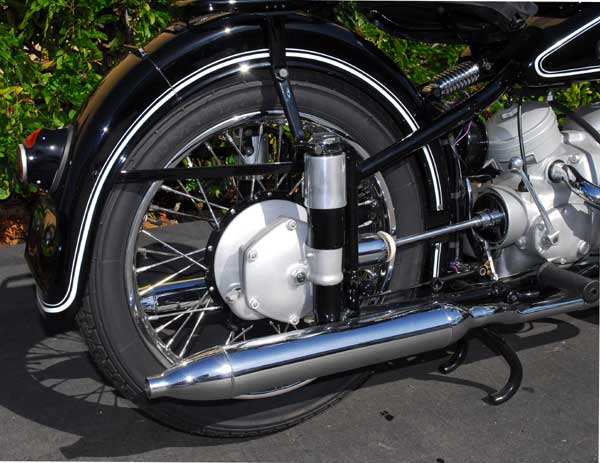 BMW R51/3 plunger and exposed drive shaft Photo © by Jeff Dean Attribution: Attribution Photo © by Jeff Dean